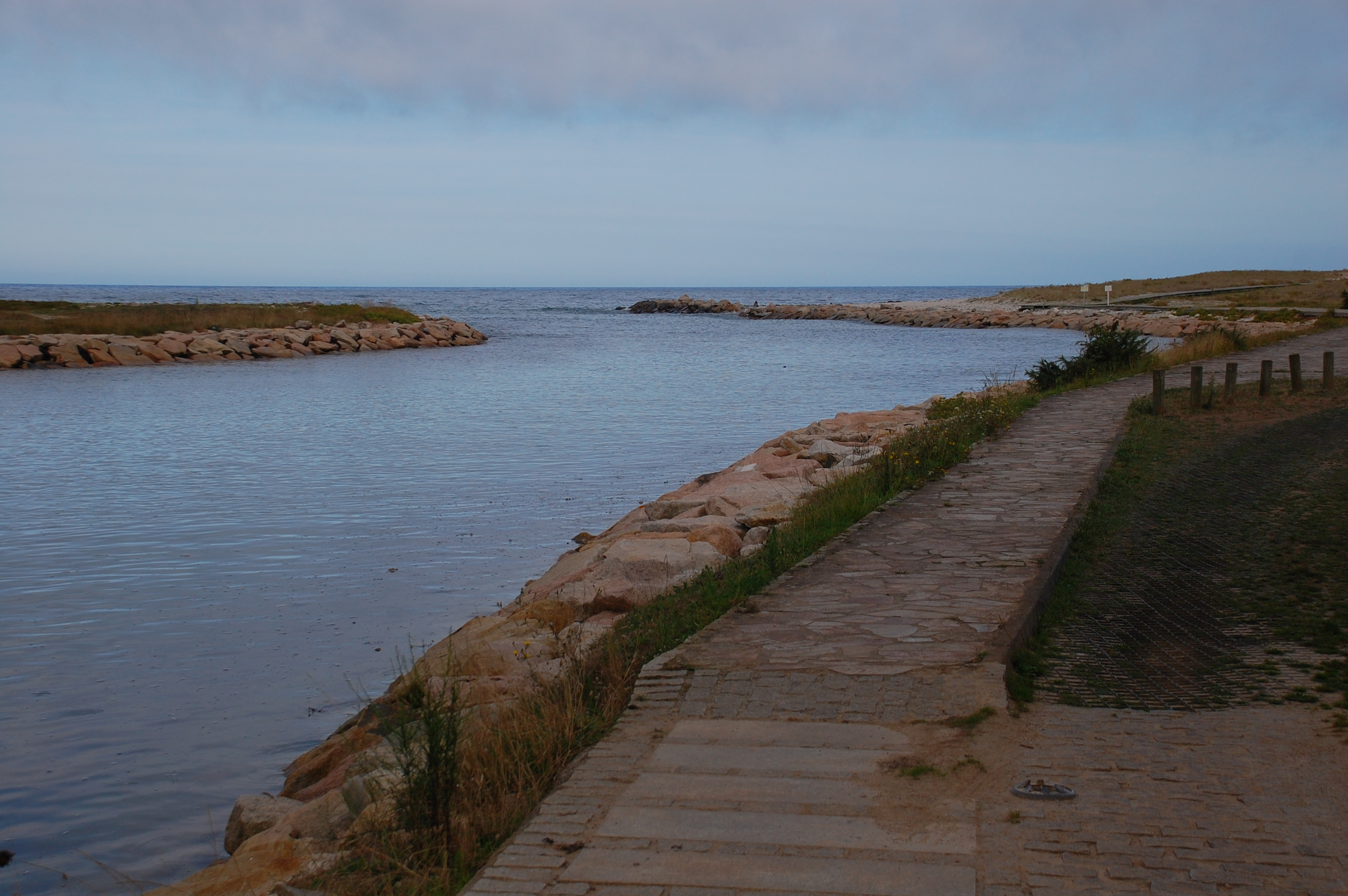 Mouth of the Ouro River in Fazouro, Foz, Lugo, at the northern coast of Galicia, Spain. The river enters the Bay of Biscay in a small estuary.